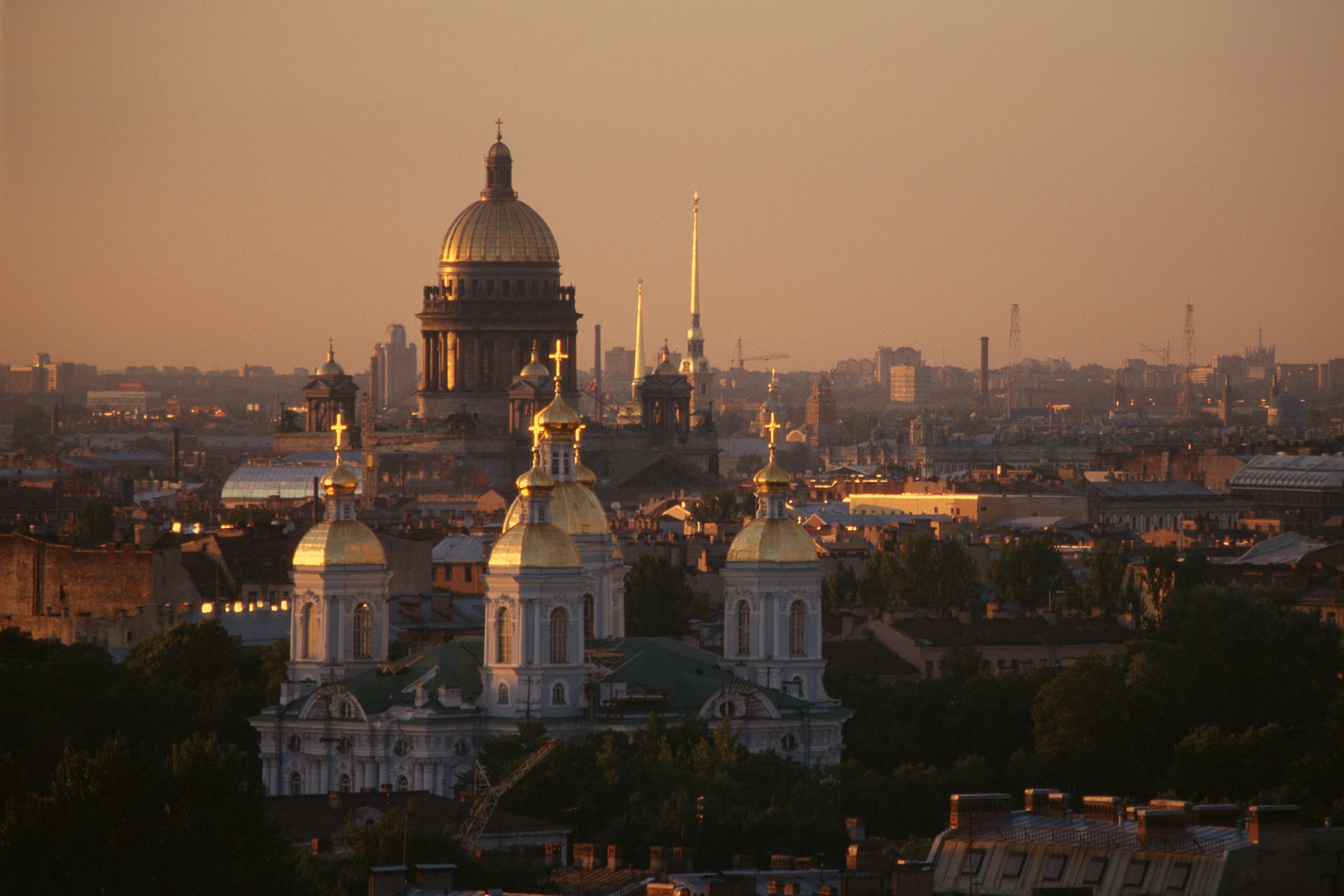 View from Sowjetskaja Hotel to St. Nicholas Cathedral around midnight in July. In the background Saint Isaac's Cathedral and the towers of Saint Peter & Paul Cathedral can be seen. (Scan from slide)